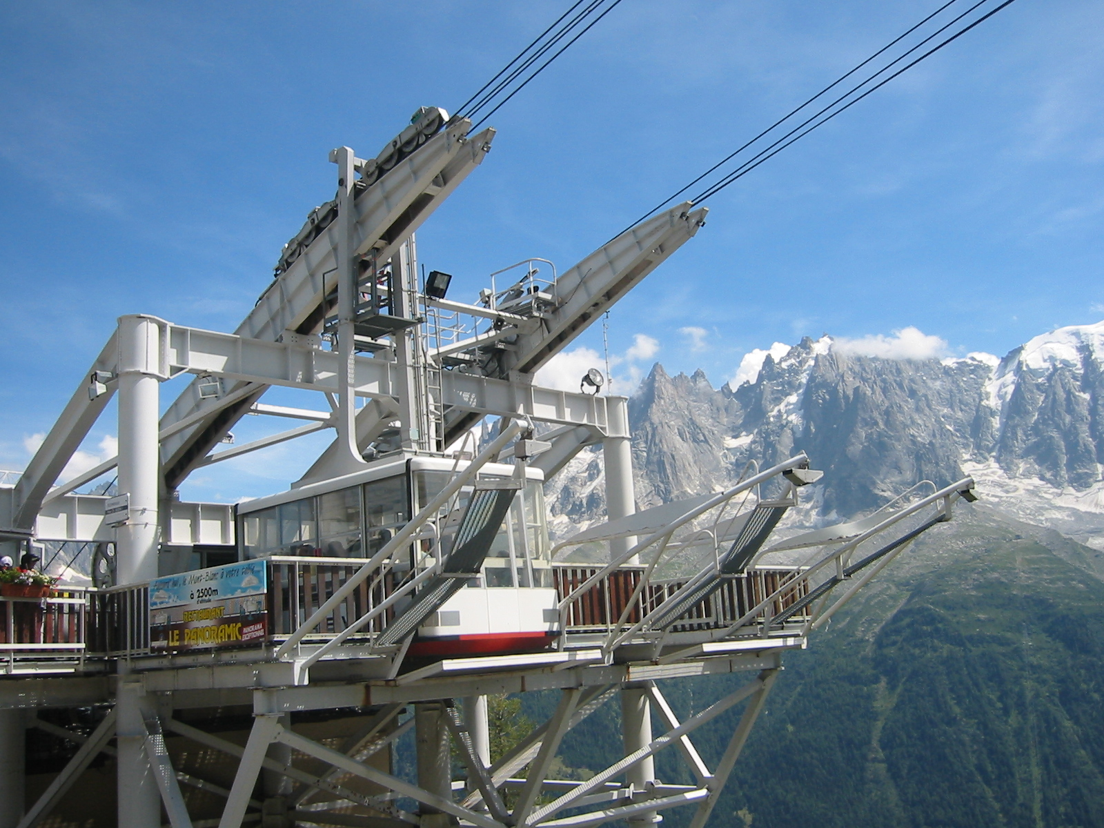 Cableway of Brevent, Chamonix, France, 2006.